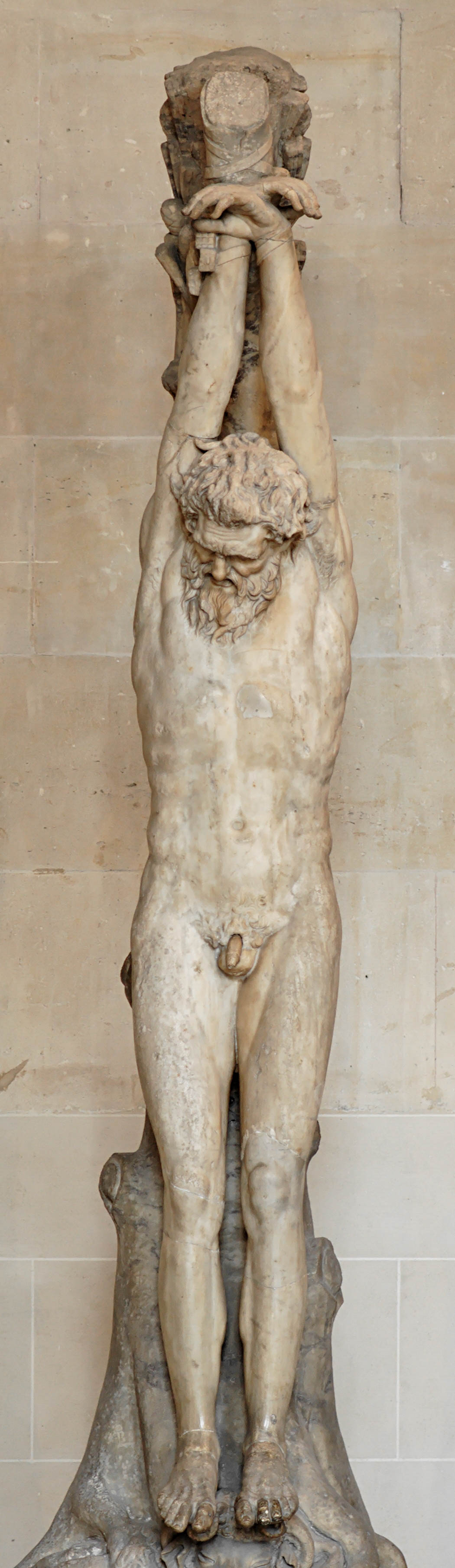 Marsyas hanging on the tree as he is going to be flayed by Apollo. Marble, Roman copy of the 1st-2nd century after a Hellenistic original. Found in Rome, Italy.